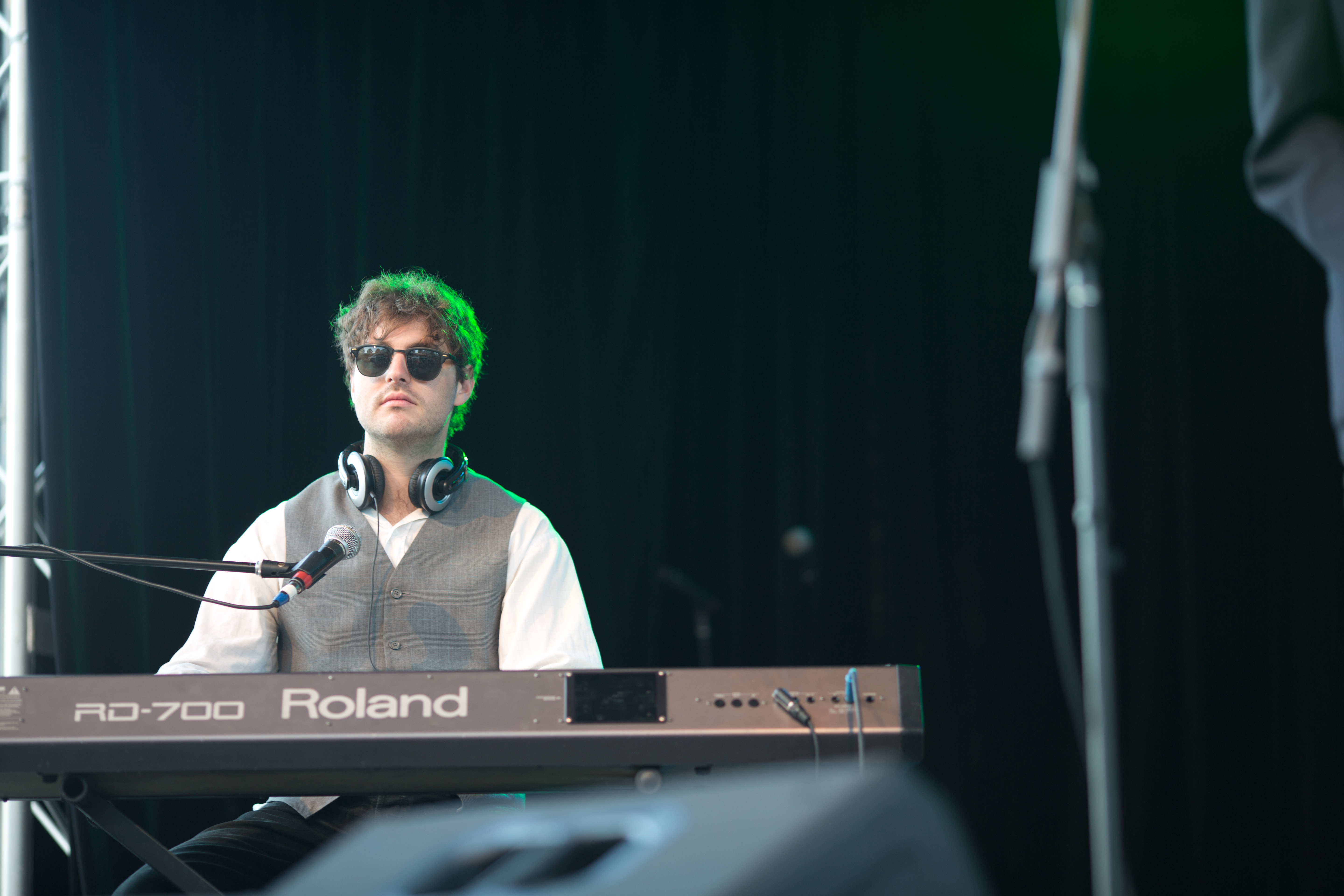 Harry James Angus @ the 2012 Darling Harbour Jazz and Blues Festival